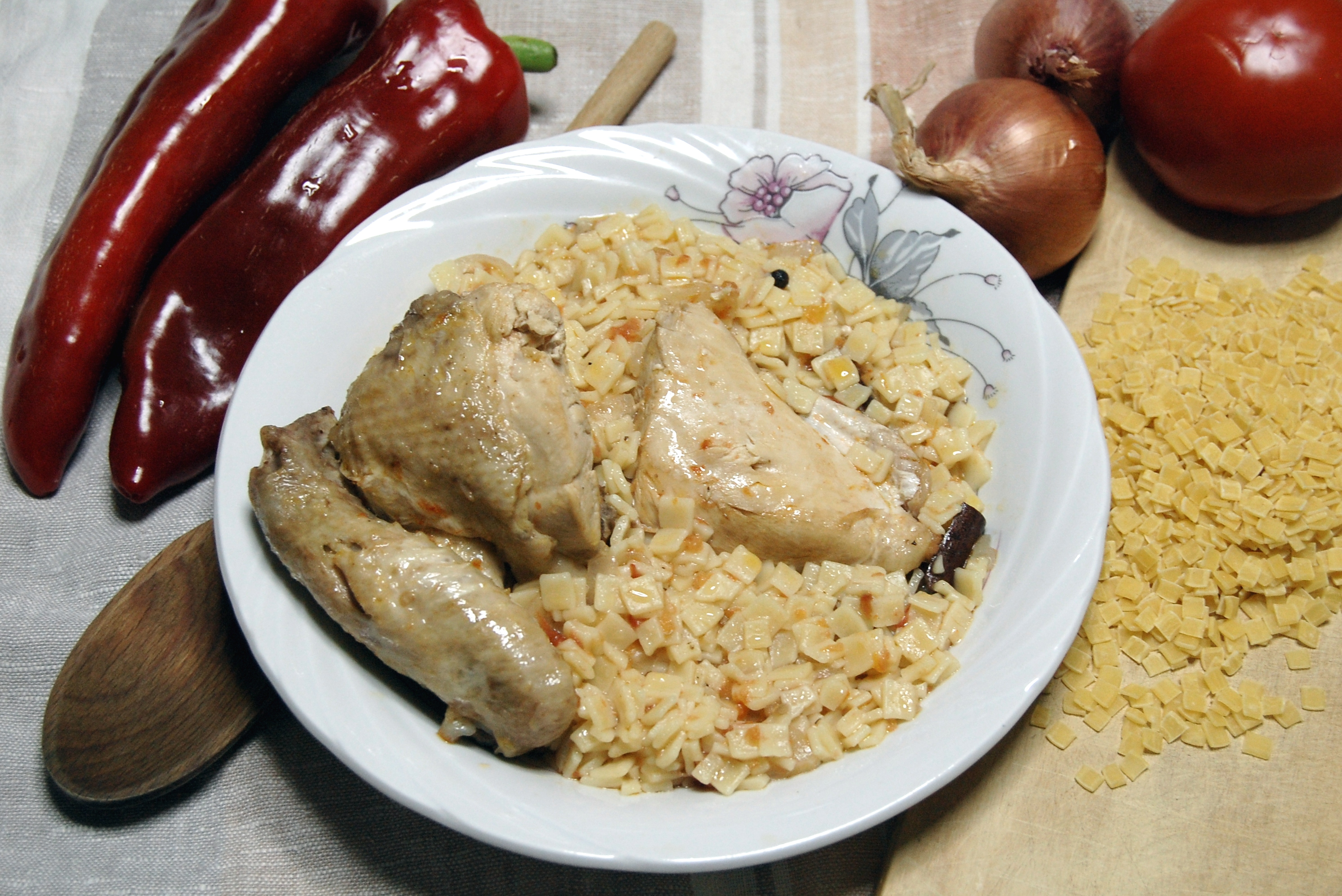 Chicken with hilopites (sort of greek noodles), a traditional rural greek dish.